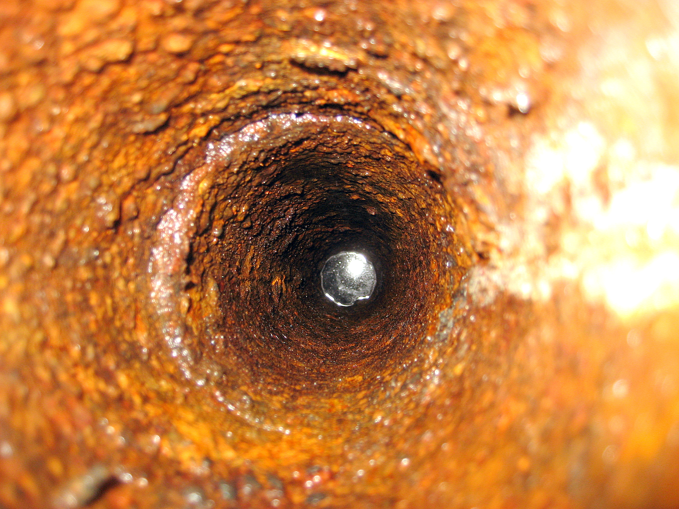 Sewerage